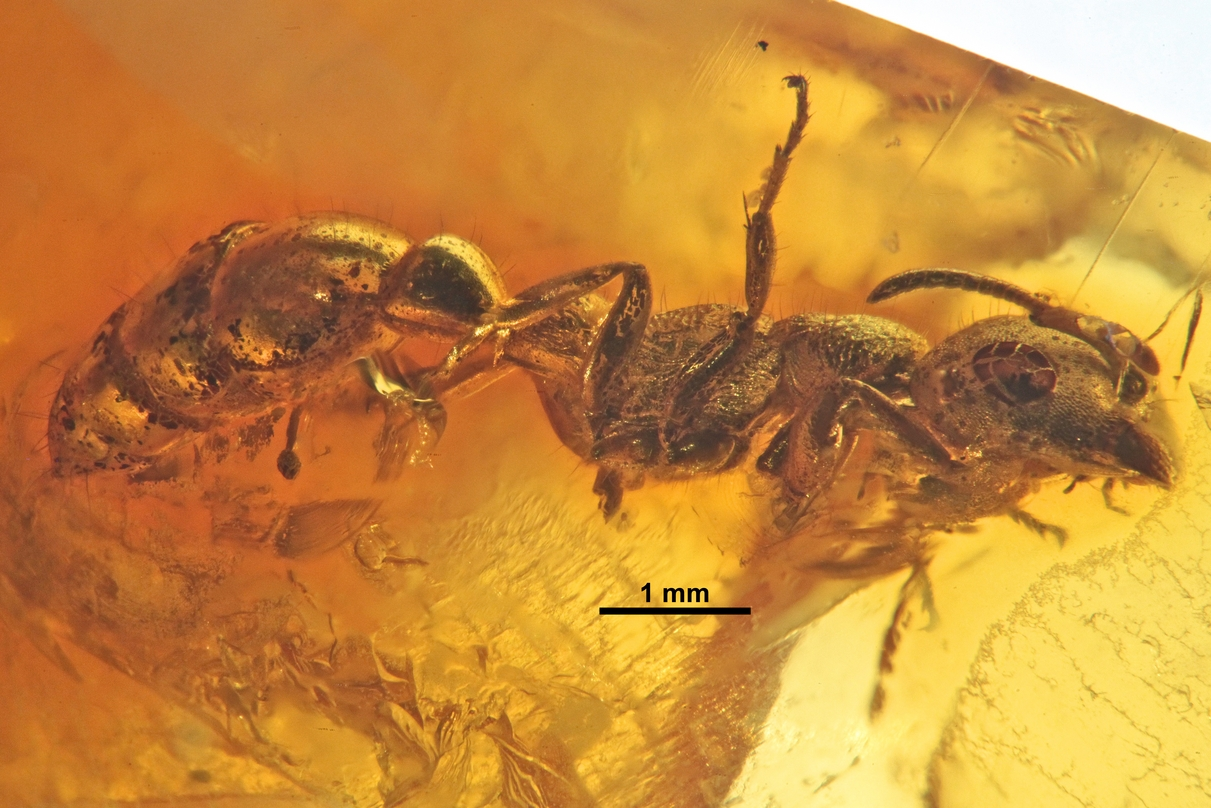 Profile view of the Tetraponera groehni holotype worker. Priabonian, Eocene; Baltic amber, Kaliningrad, Russian Federation Centrum of Natural History (Geologische-Palaeontologische Institut), Hamburg University, specimen GPIH-BE4510